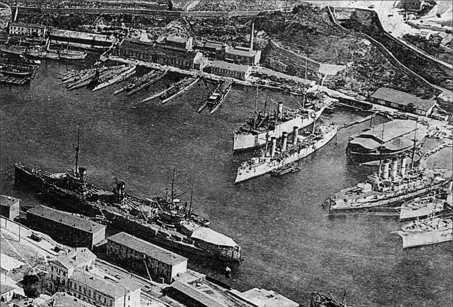 Southern Bay at Sevastopol. In the foreground is the battleship Volia. In the backgrounds are the balltehip Evstafii and cruiser Pamiat' Merkuriia, submarines and so on. A foto made by a German plane. 25 August 1918.